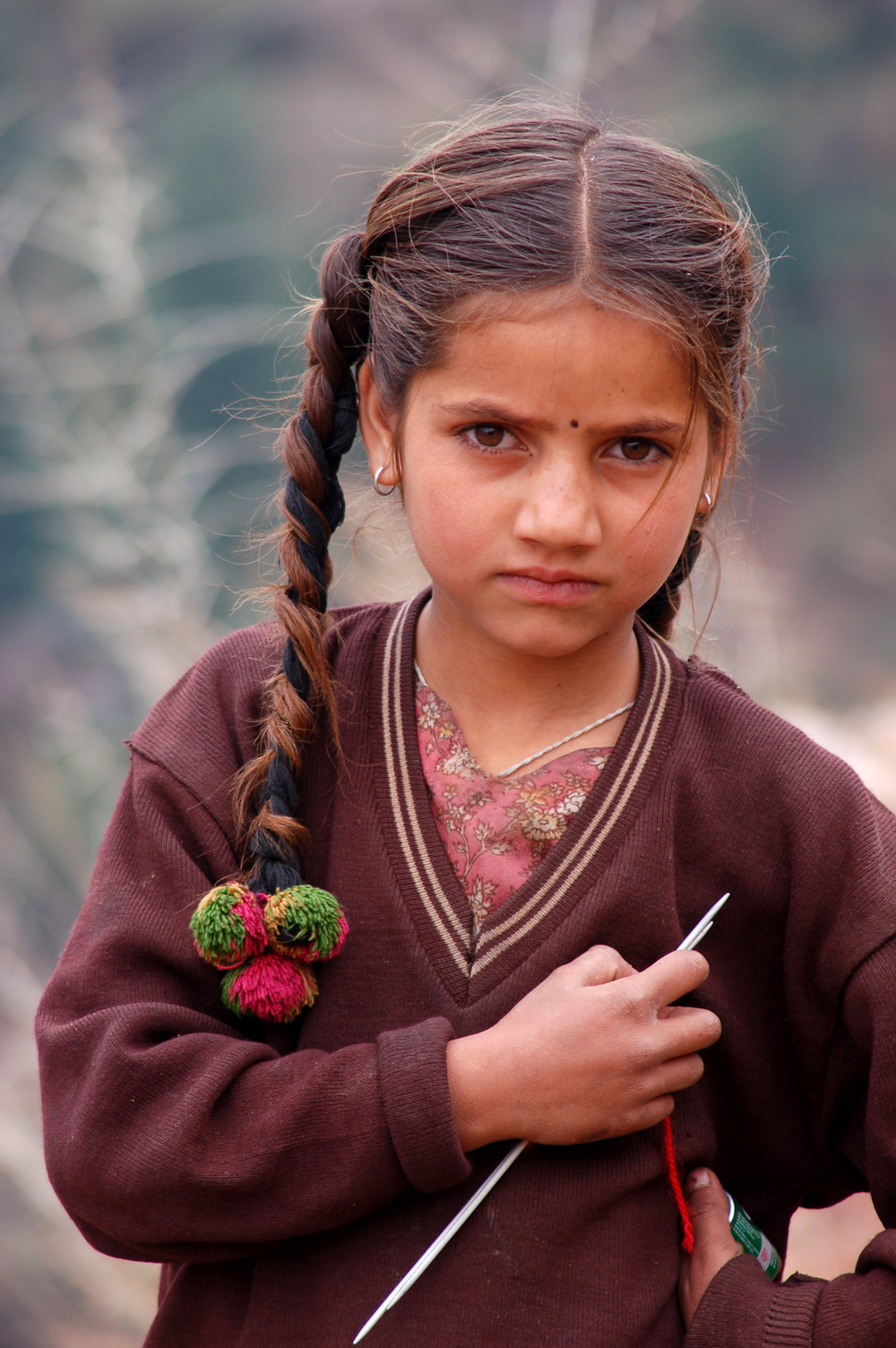 Girls in India Children in India